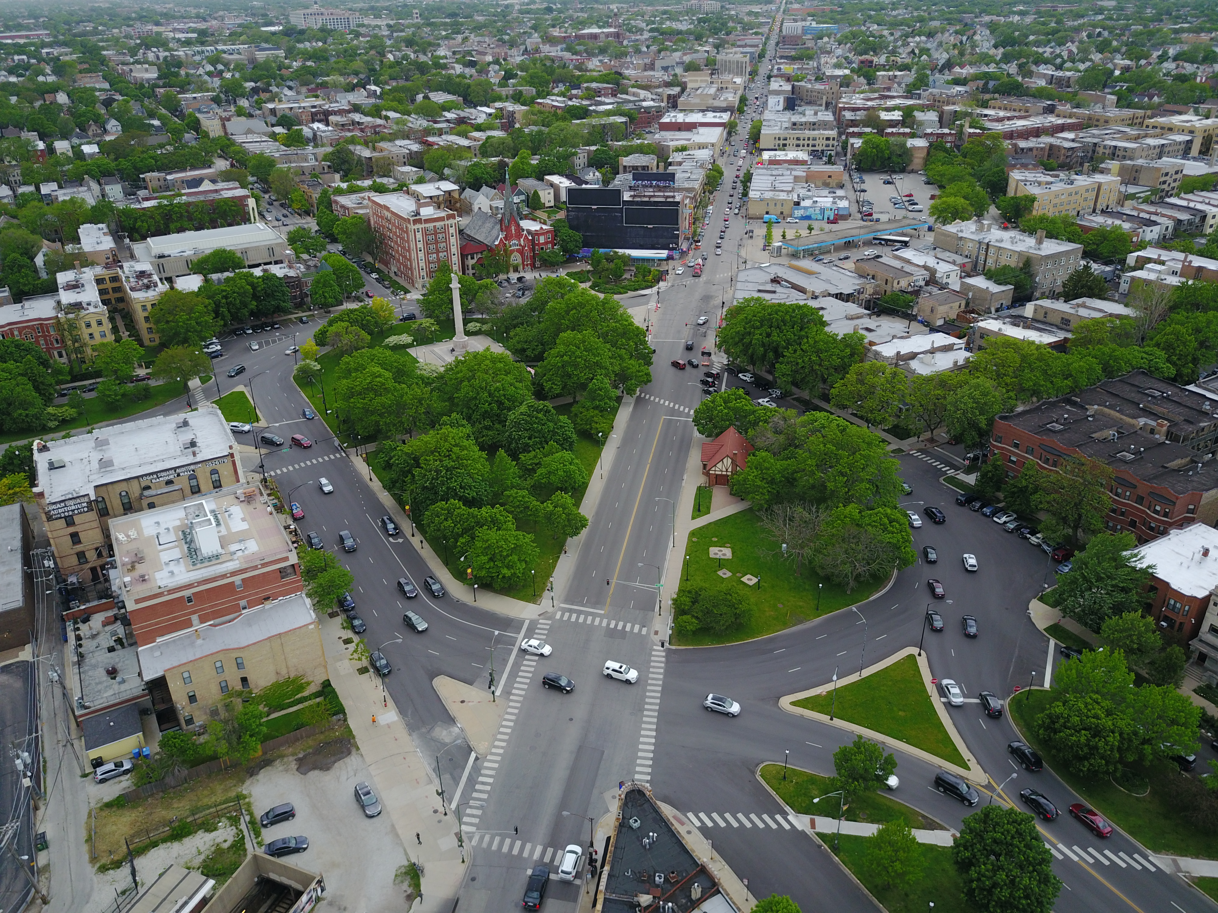 This is the Logan Square traffic circle.